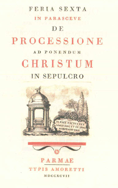 frontispiece of Fratelli Amoretti's book regarding Easter's religious offices